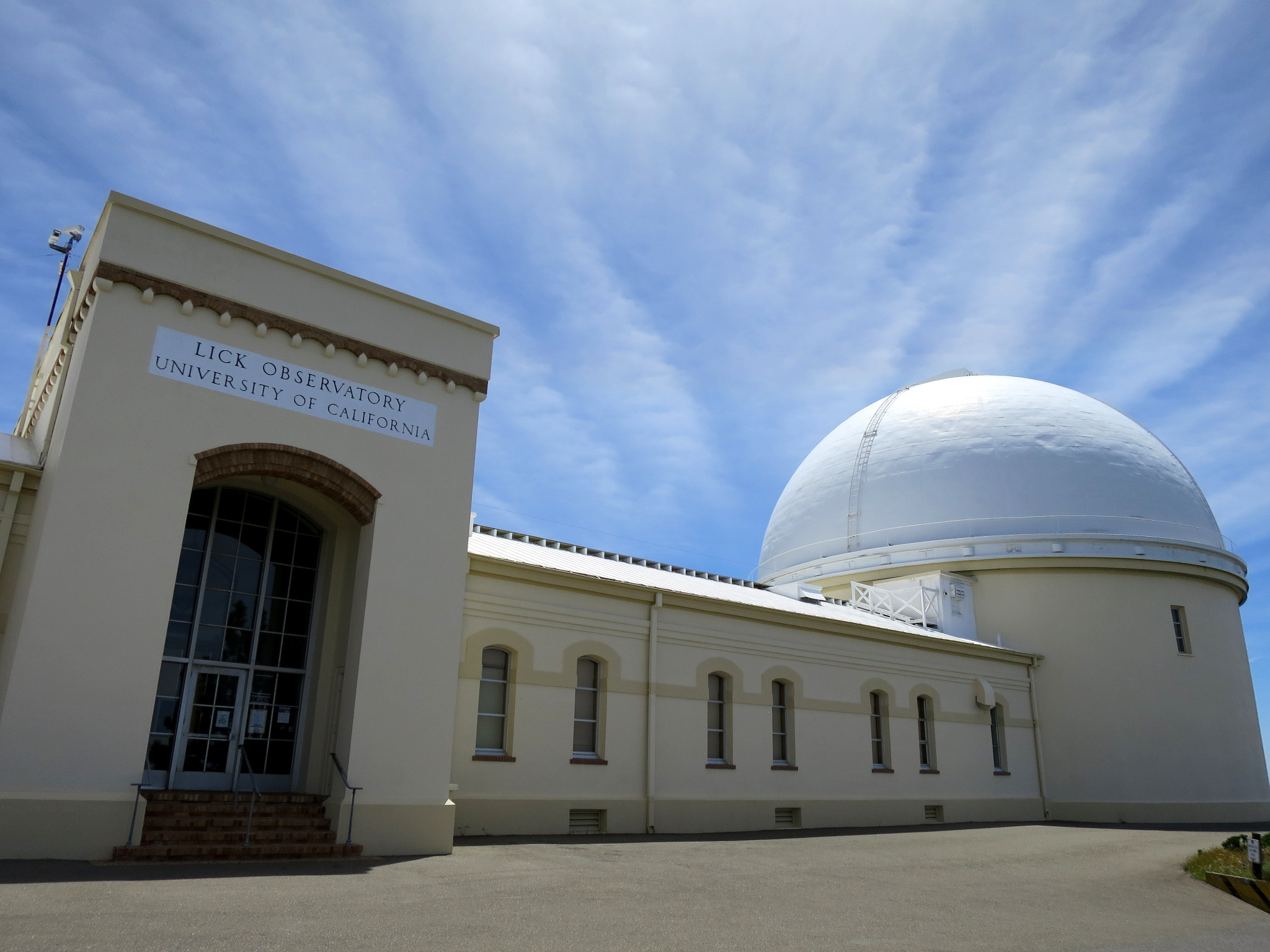 Lick observatory on 2014.05.17